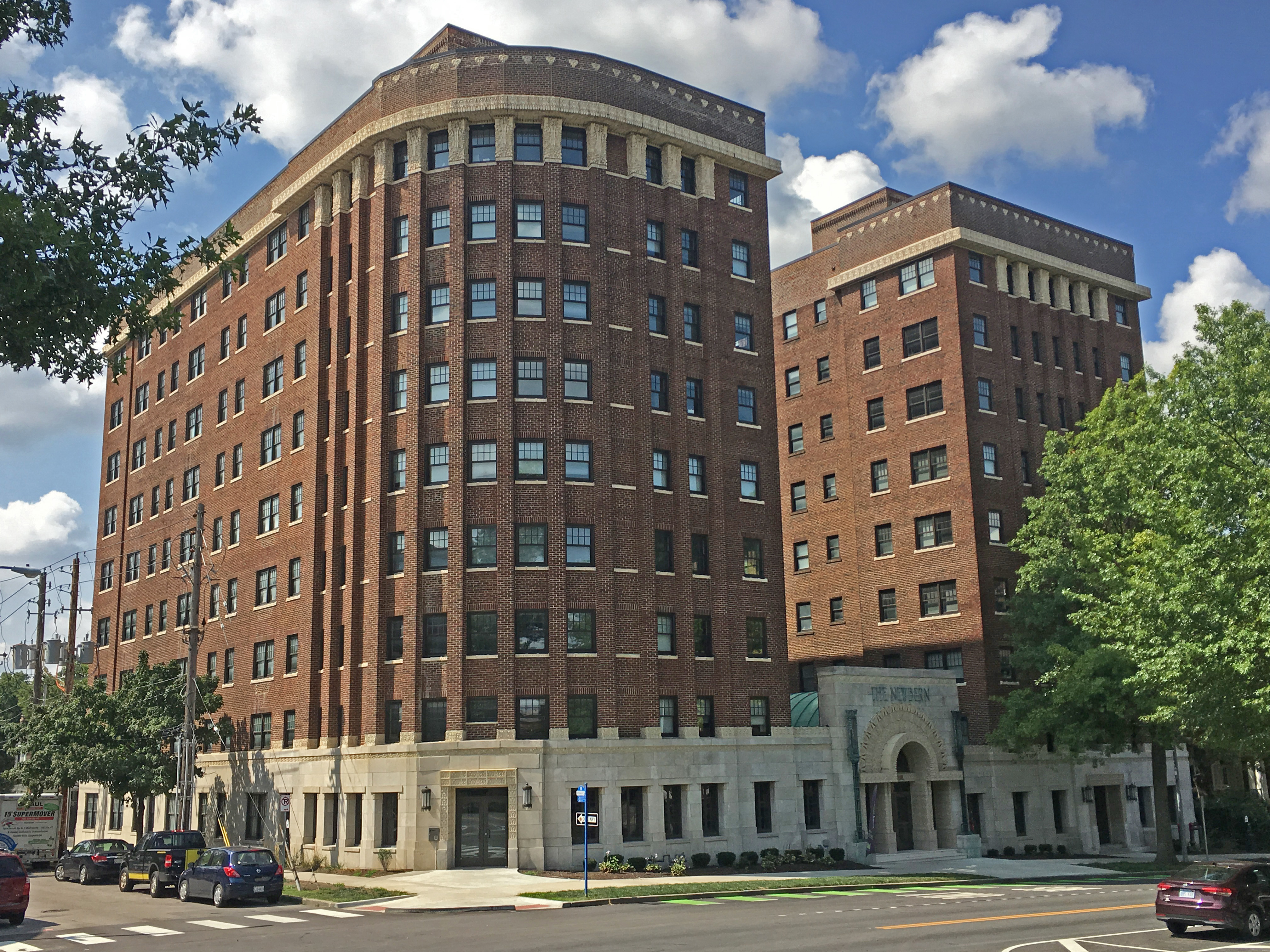 Belmont Hotel